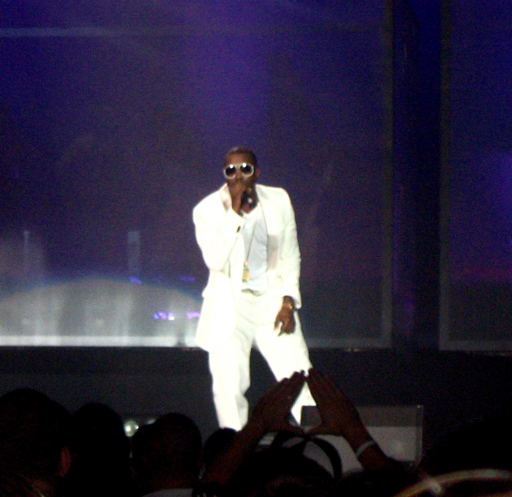 Kanye West performing at Air Canada Centre in Toronto, Canada on November 9, 2005 during the Touch the Sky Tour.